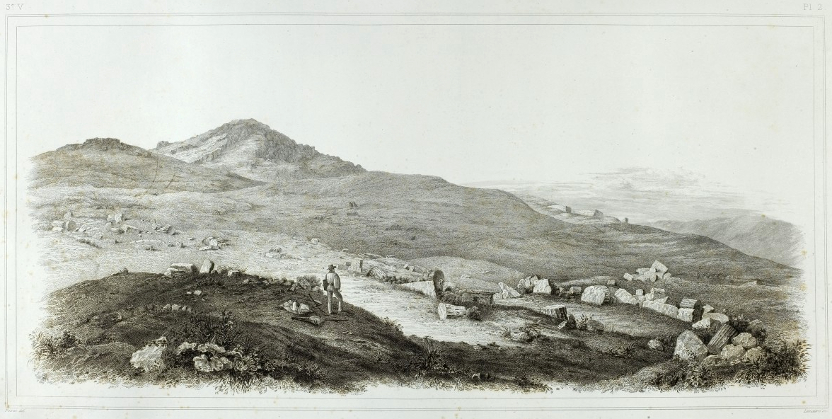 Delos in 1829. Cropped and retouched version of File:Delos1829.jpg.